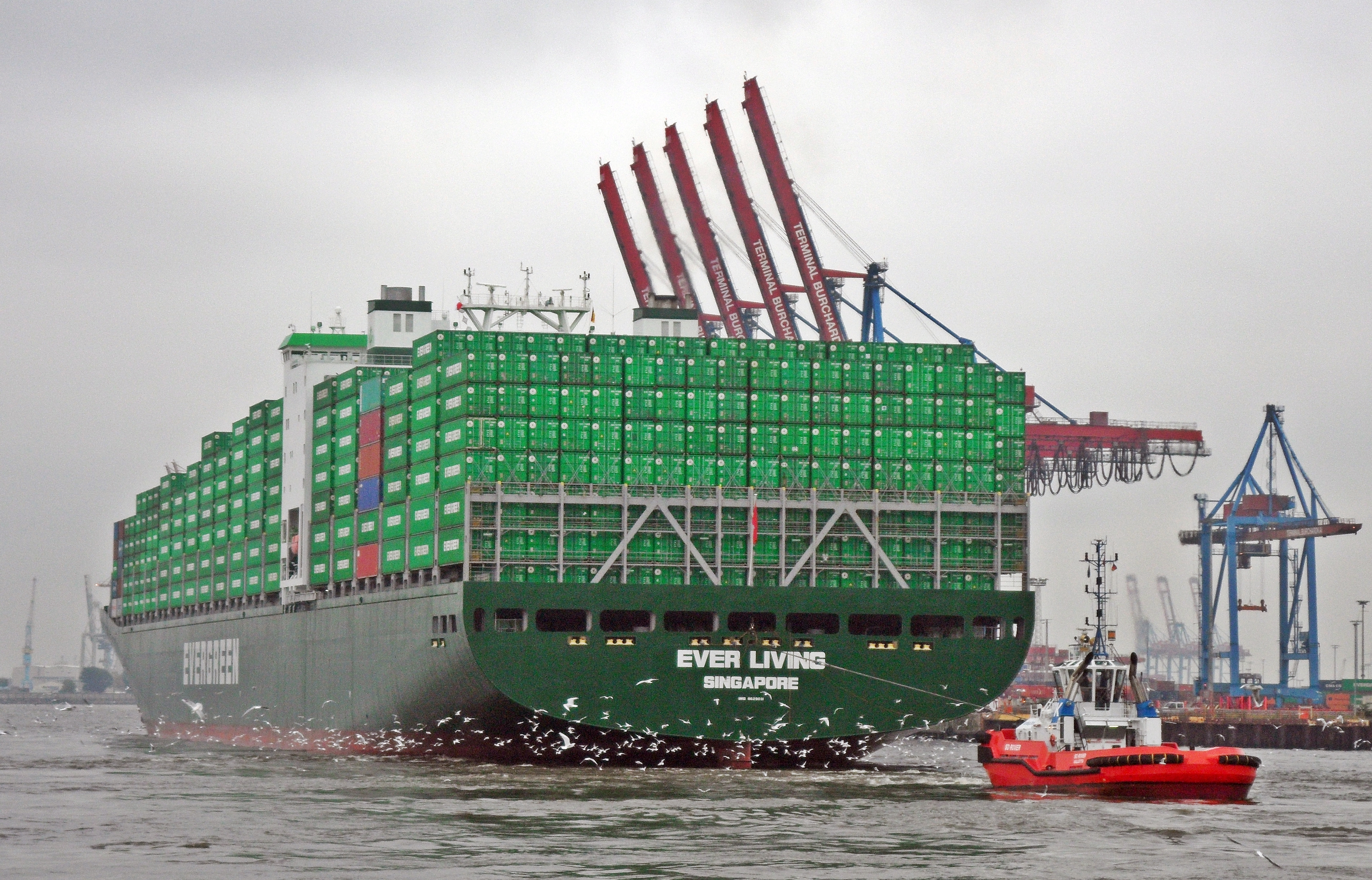 Container ship Ever Living in the port of Hamburg in front of the Container terminal Burchardkai